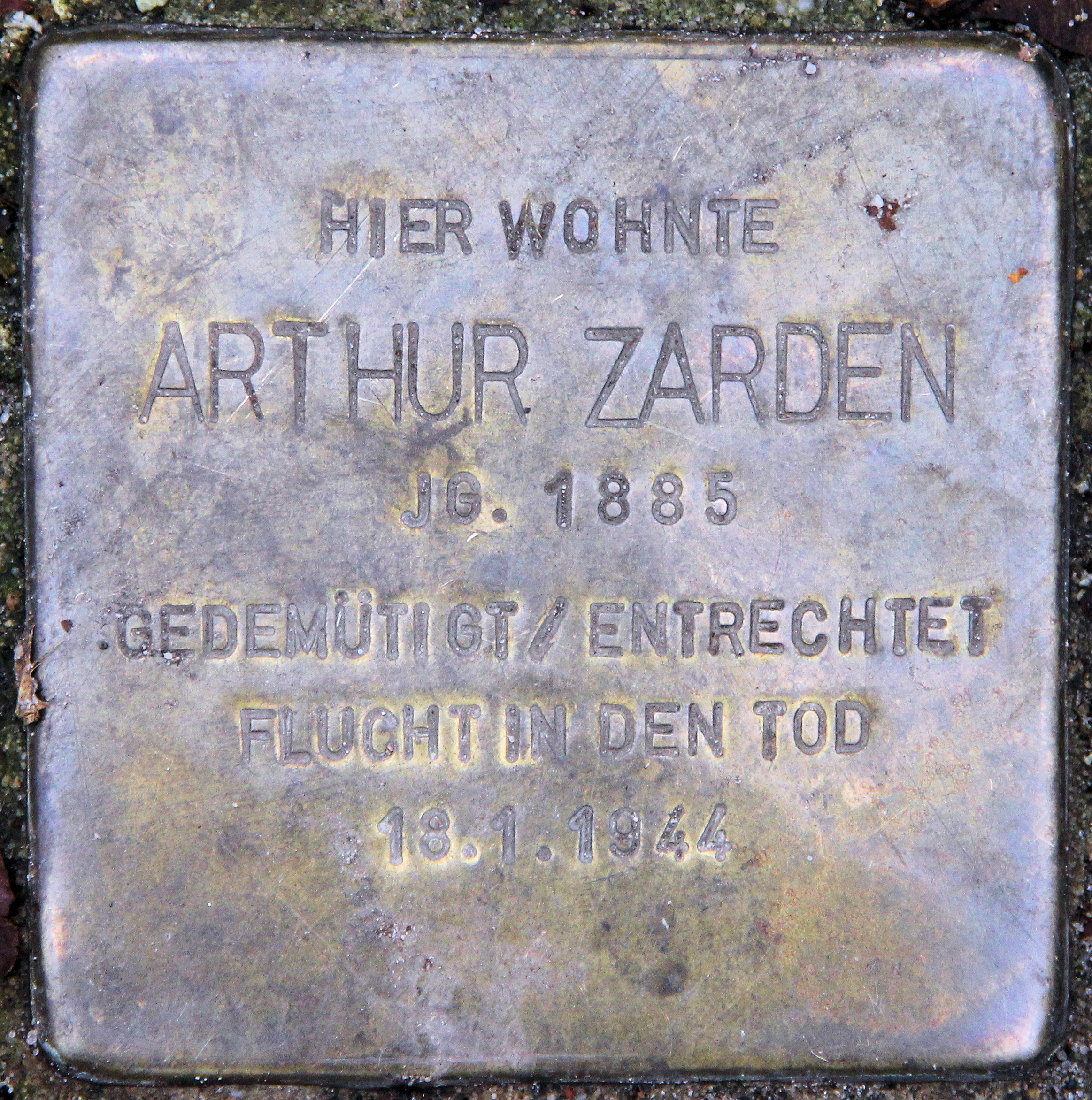 "Stolperstein" (stumbling block), Arthur Zarden, Goßlerstraße 21, Berlin-Dahlem, Germany Koordinate:52°26′51″N 13°17′22″E / 52.4475°N 13.28944°E